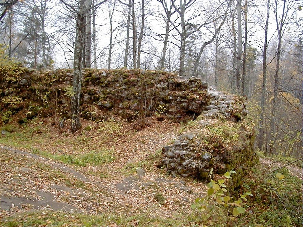 Volkenberga Castle ruins